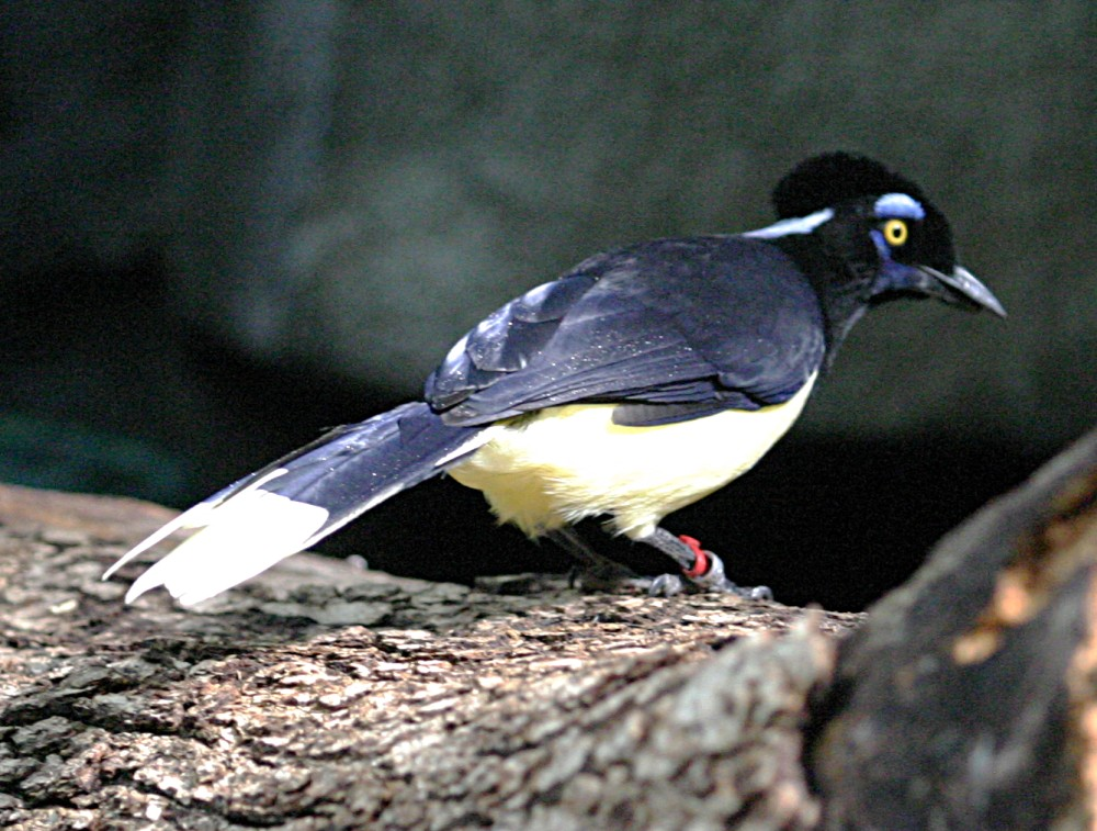 Plush-crested Jay at the Milwaukee County Zoological Gardens.